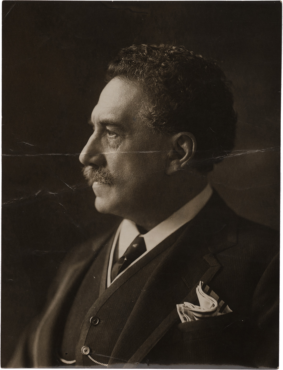 Portrait of Isidore De Lara, composer (1858-1935). Photo by unknown, before 1935.